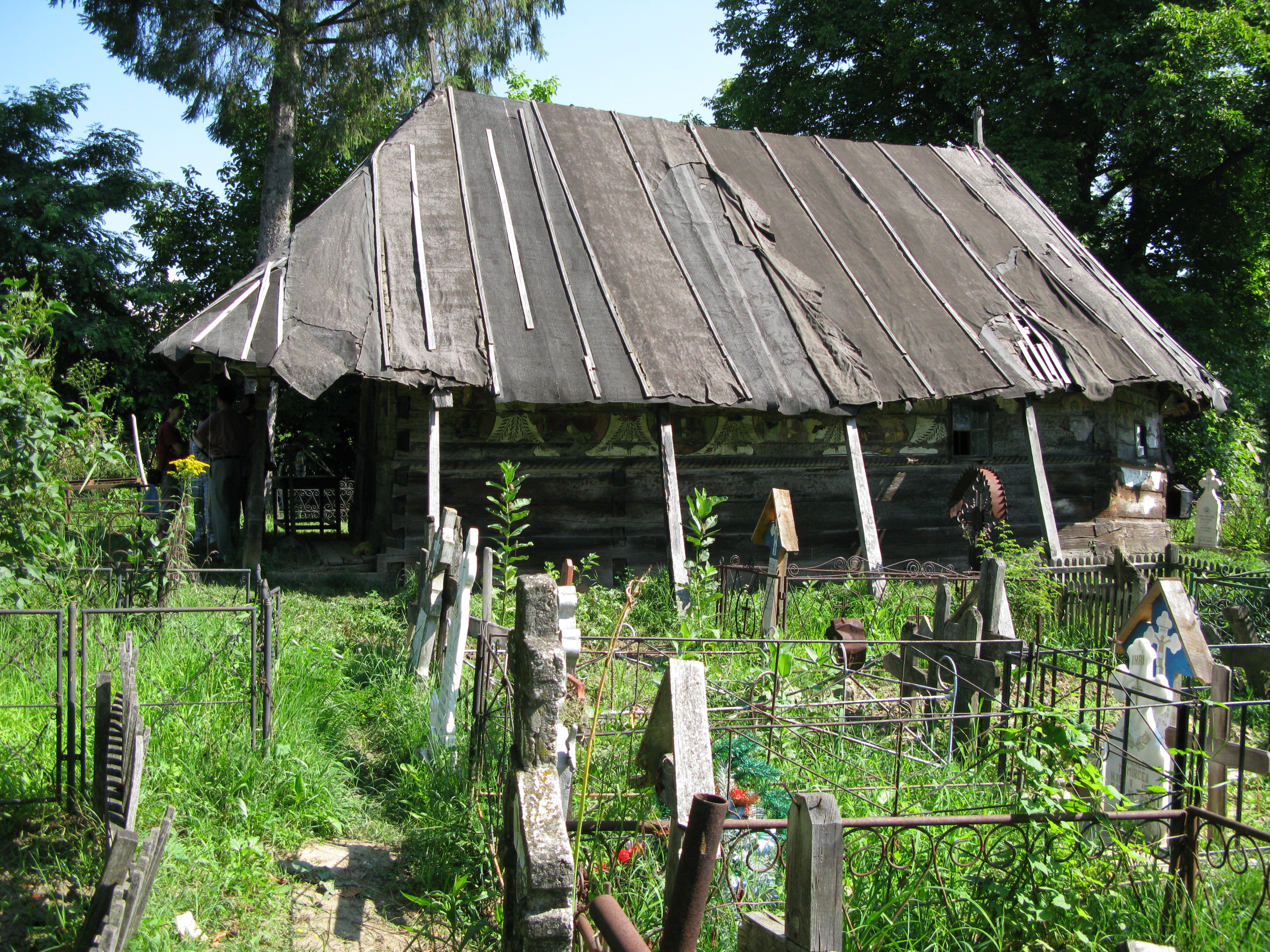 wooden church from Urși village, Romania